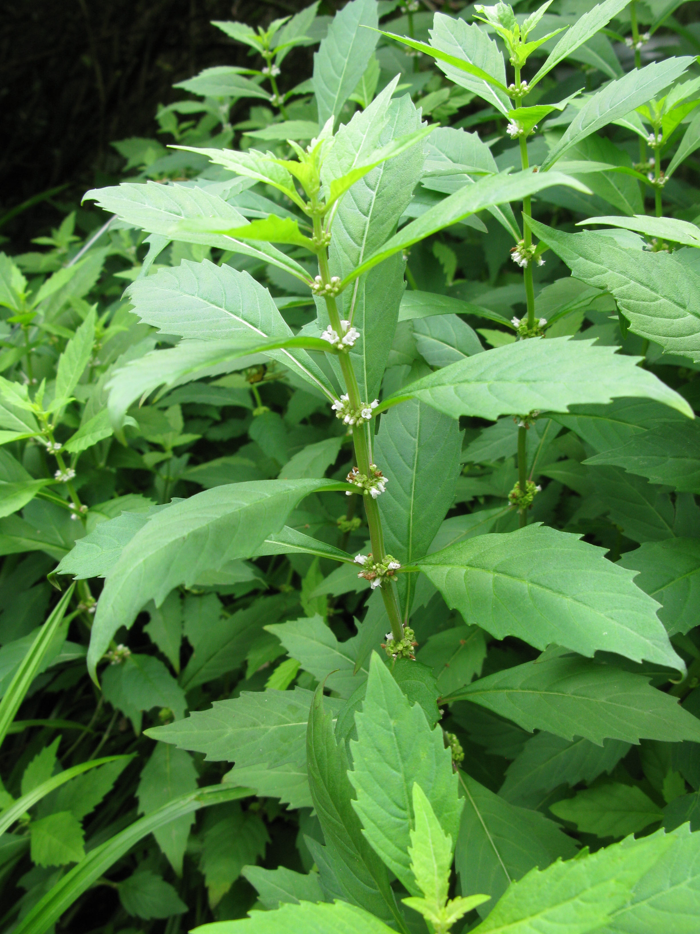 Lycopus uniflorus,Mount Iide, Fukushima pref., Japan